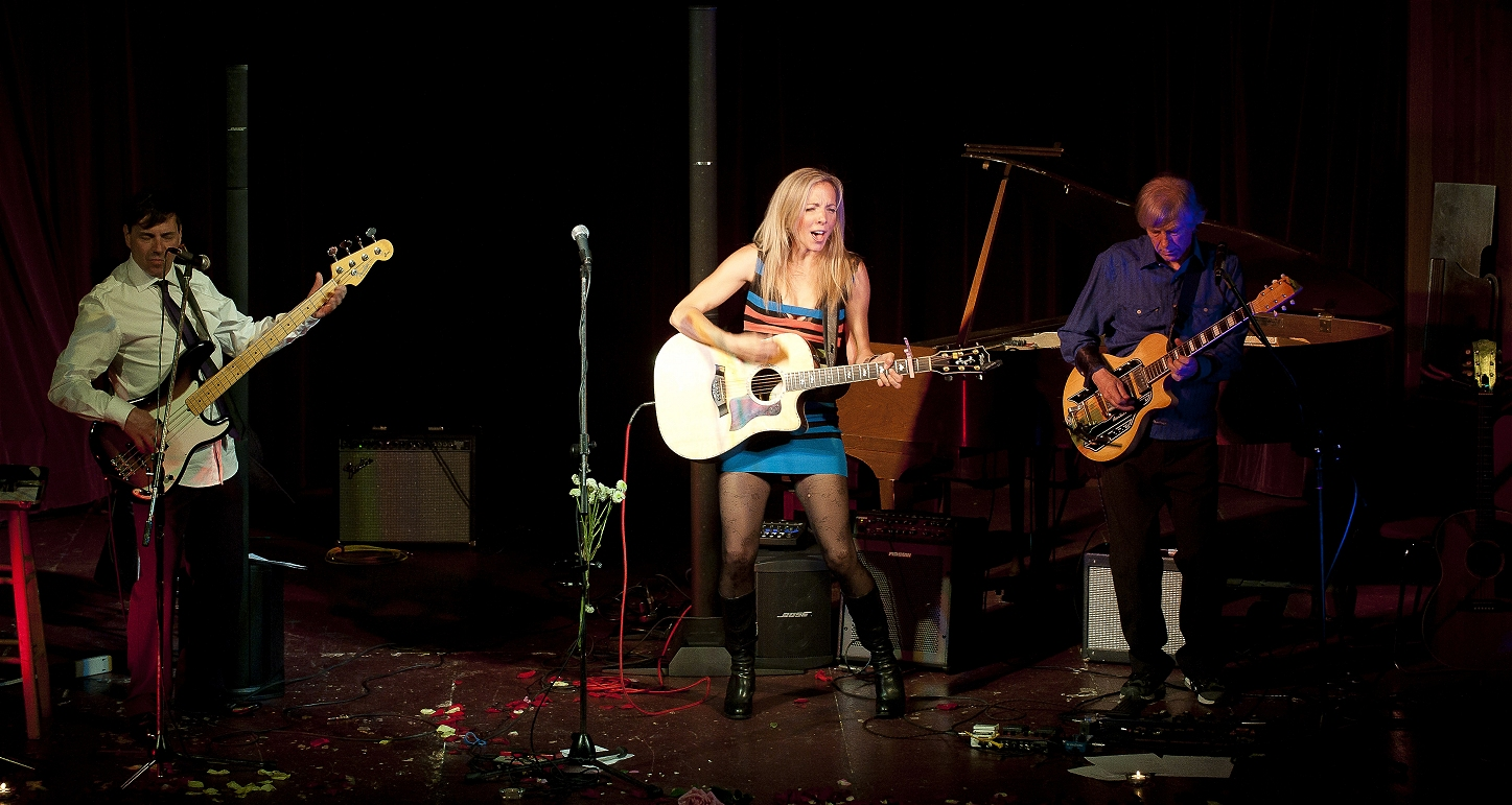 Melanie Dekker with Allan Rodger and David Sinclair live in Concert at St. James Hall, Vancouver, BC